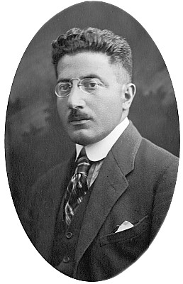 Richard Löwy in 1925